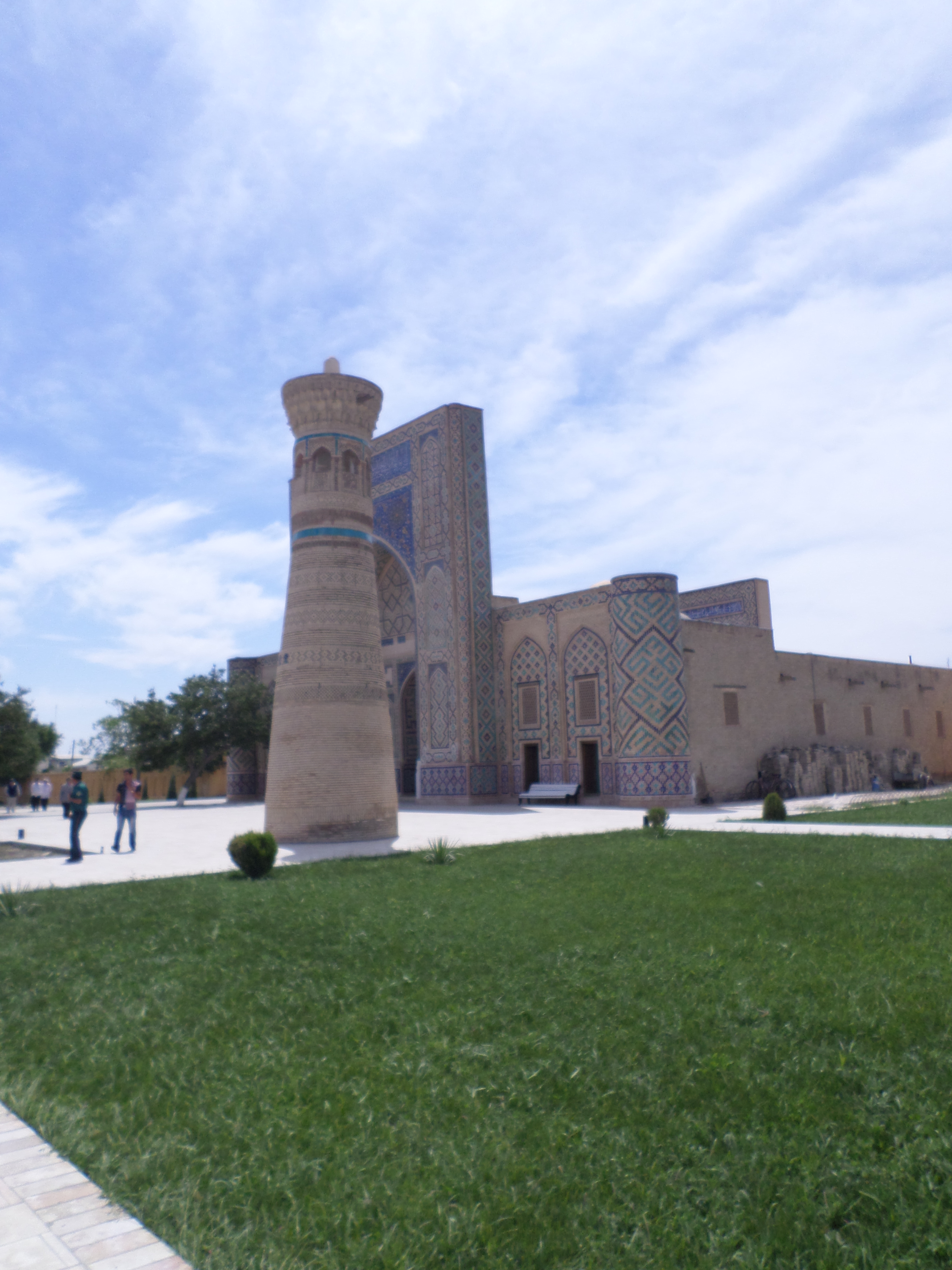 Ulugh-Beg madrasah in Gijduvan